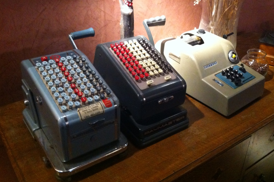 Historic registers.